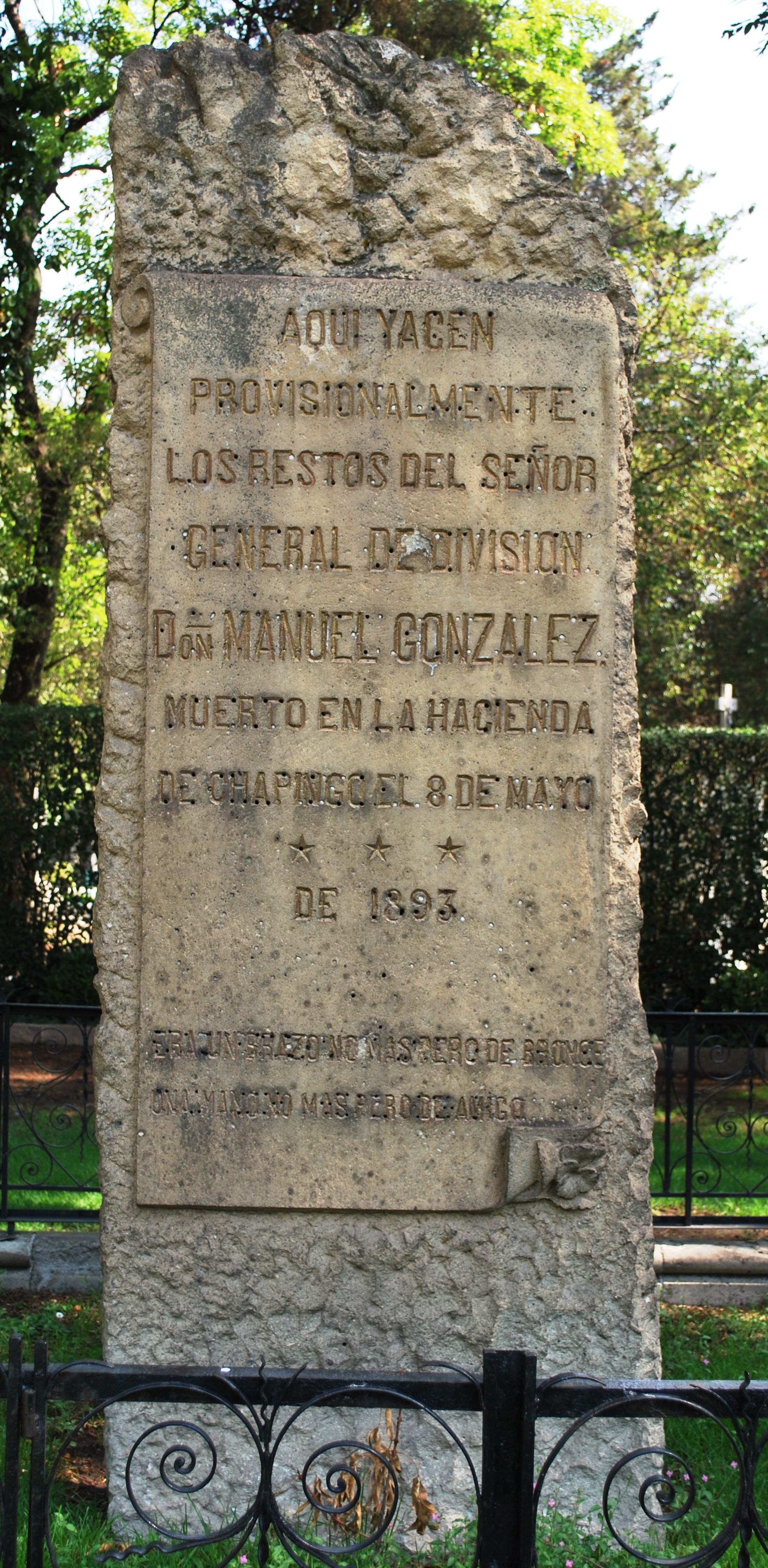 Tomb of General Manuel Gonzalez located in the Panteon Civil de Dolores cemetery in Mexico City